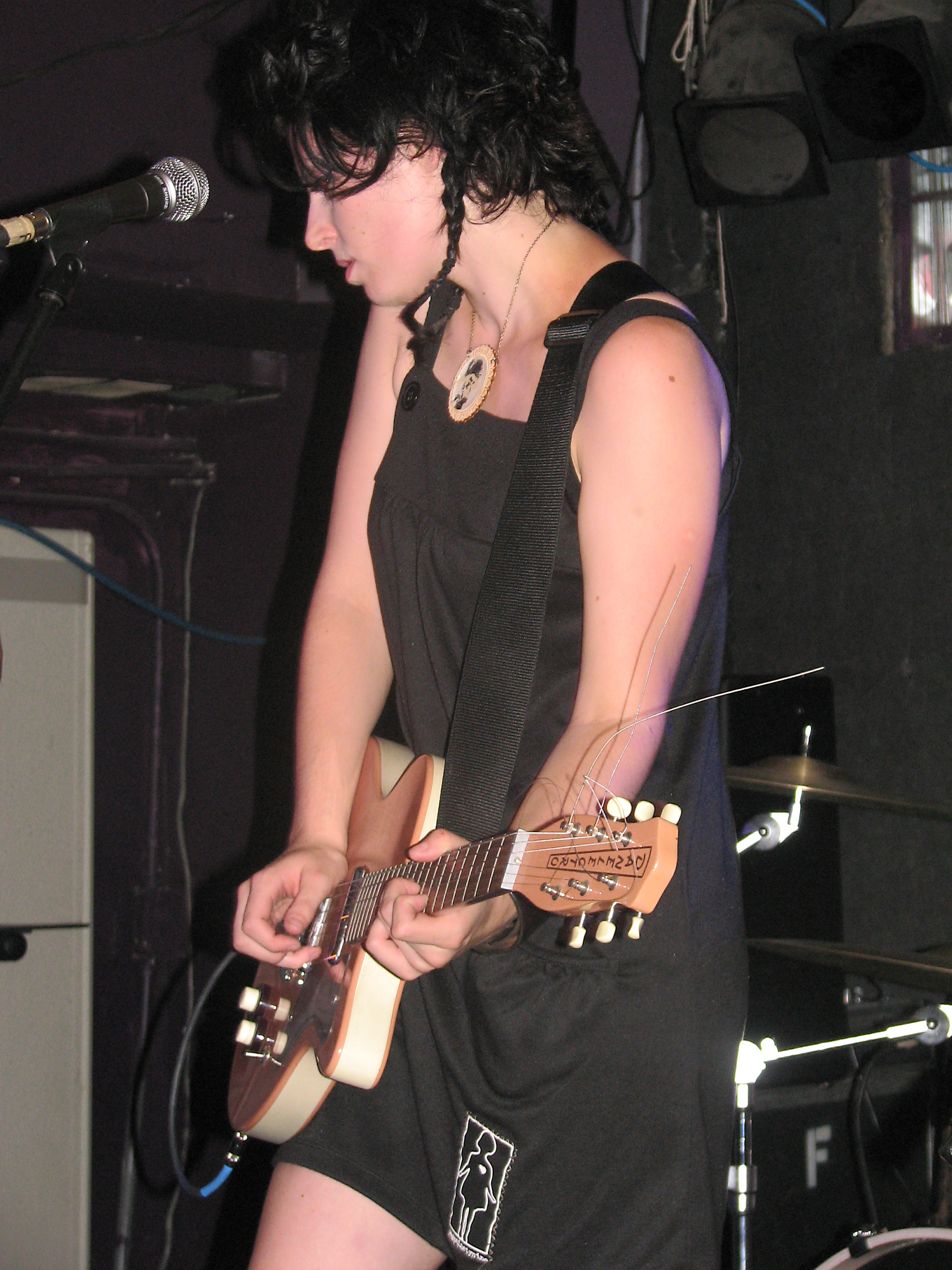 Carina Round performing in Washington, D.C. --September, 2007.